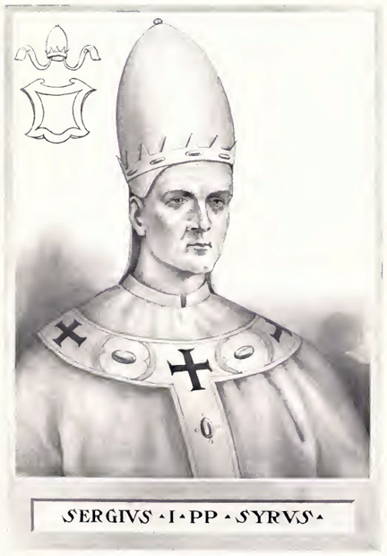 This illustration is from The Lives and Times of the Popes by Chevalier Artaud de Montor, New York: The Catholic Publication Society of America, 1911. It was originally published in 1842.